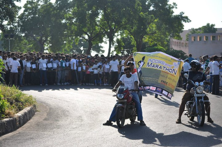 Dream Run of Indore Marathon 2010 being flagged off at IIM Indore.